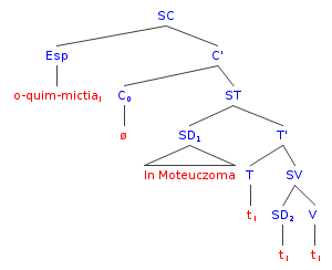 An example of nahuatl setence using Complementizer Phrase (SC), Time Phrase (ST) and Determiner Phrase (SD), in marked order: ōquīmmictia in Motēuczōma 'Moctezuma killed them'